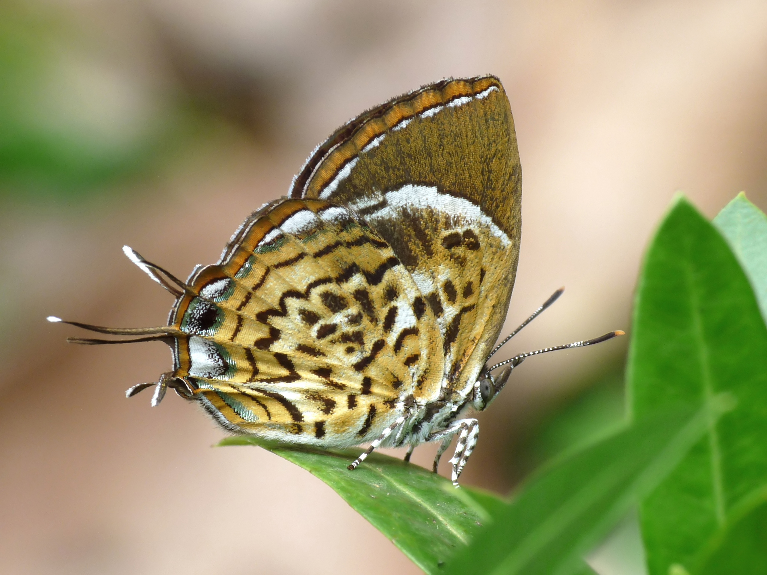 The Monkey Puzzle, Rathinda amor (Fabricius) 1775 is a small lycaenid or blue butterfly found in south Asia. The butterfly has a weak flight, it stays low and does not fly for long without alighting. Its method of alighting is interesting - as soon as it lands, it turns around and waggles its tail filaments, it also sidesteps for a while - all this is apparently to confuse a predator as to which side is the head. This is a likely reason that the first naturalists may have named the species the Monkey Puzzle. Taken at Kadavoor, Kerala, India.